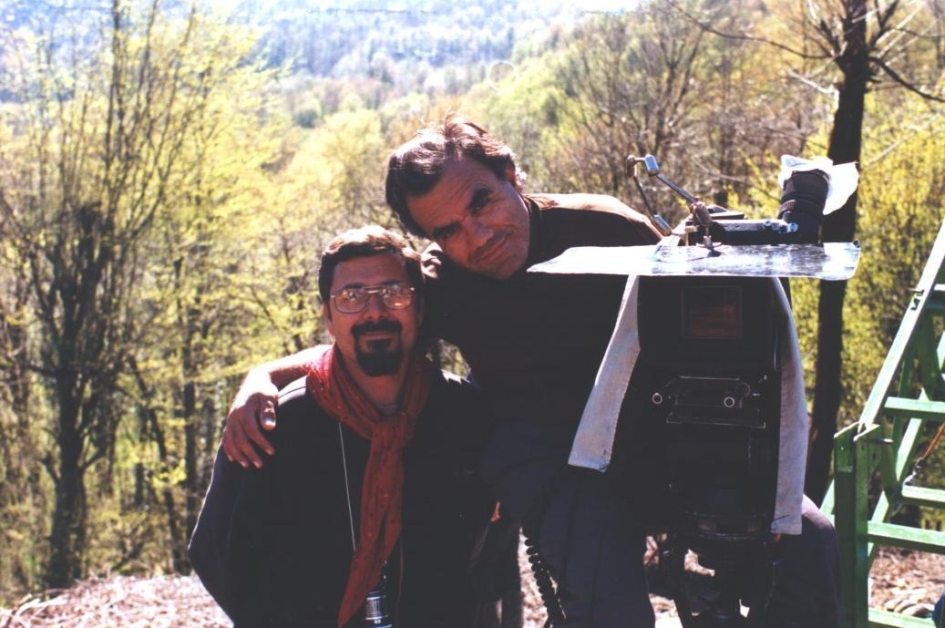 Film director Mahmoud Shoolizadeh and the Cinematographer Farzad Jodat, during filming of Noora.